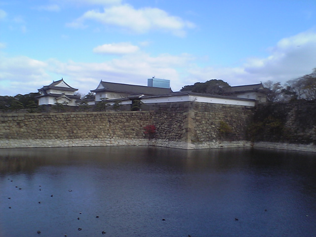 photo of Ōsaka Castle Ōtemon and Sengan-yagura(Japan's national important cultural property)